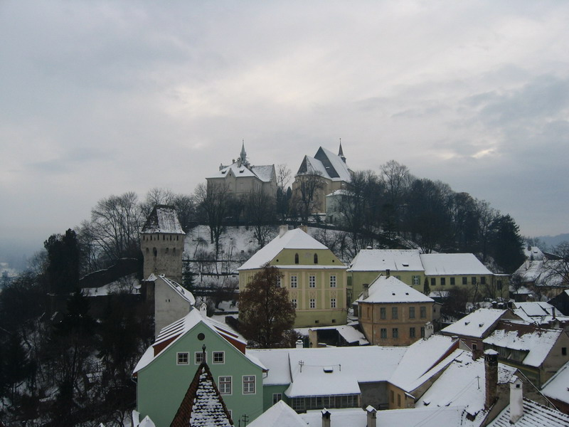 Made by me, December 2005.